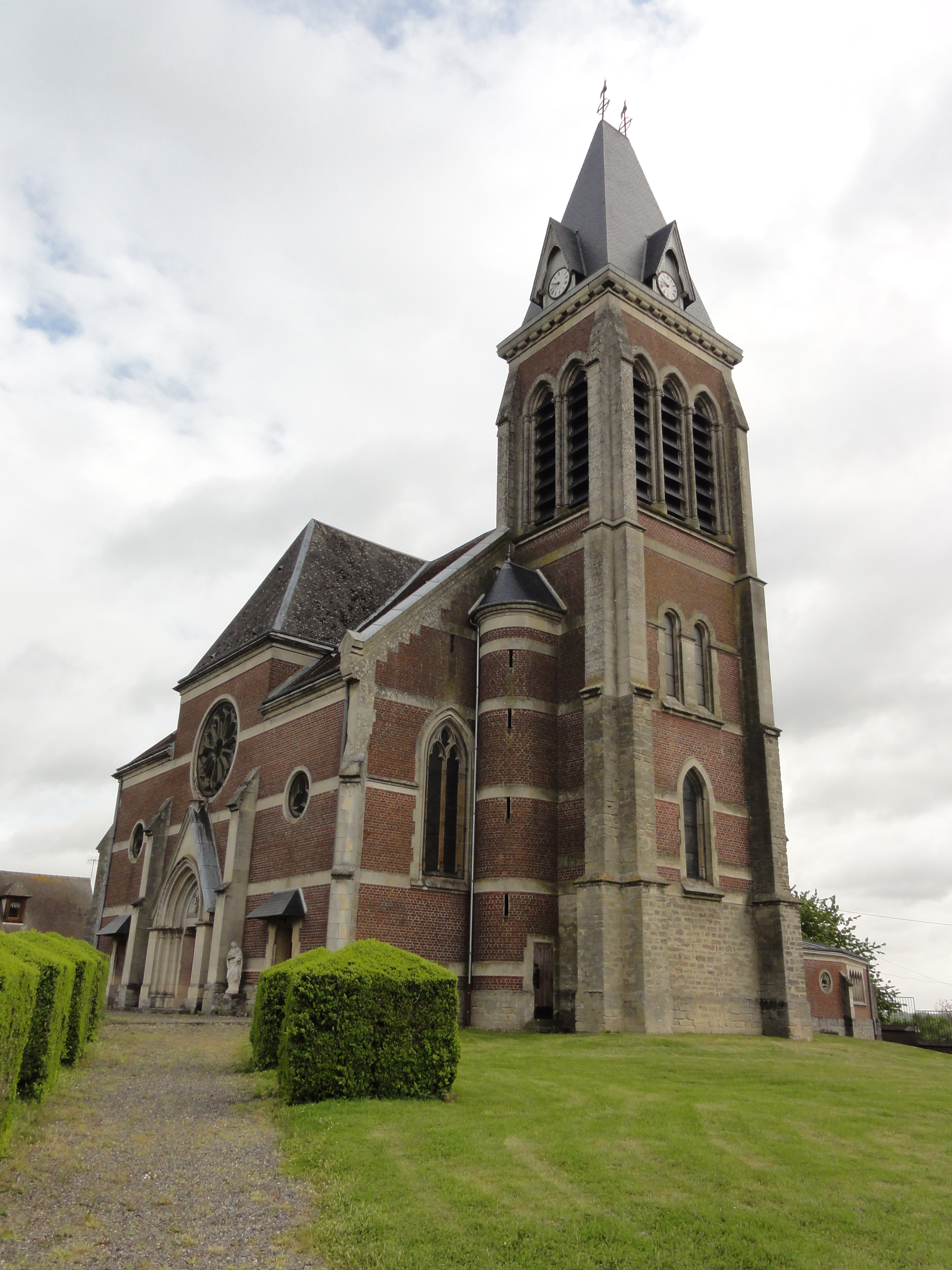 Vendeuil (Aisne) église